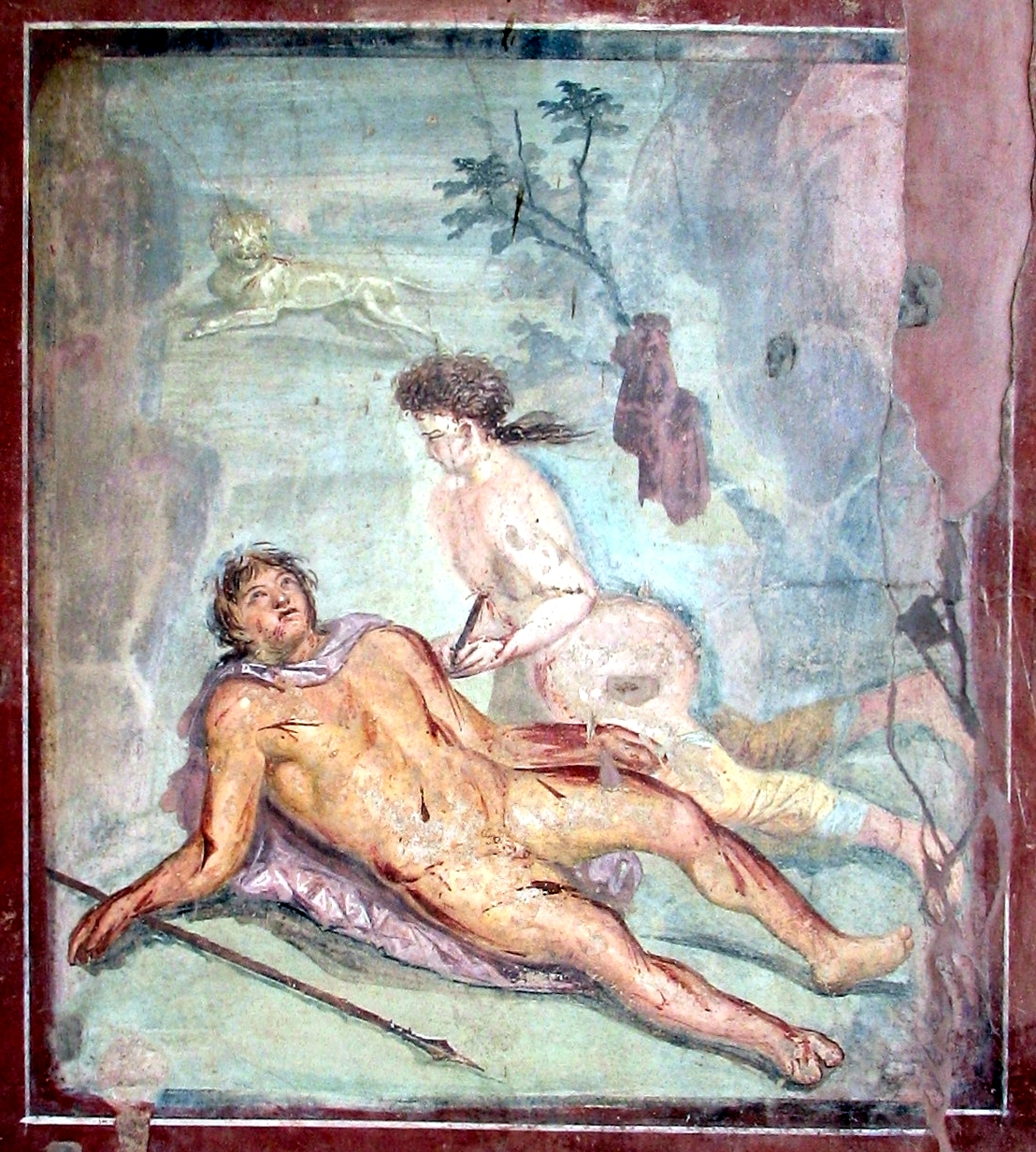 Pyramus and Thisbe, House of Loreius Tiburtinus, Pompeii.